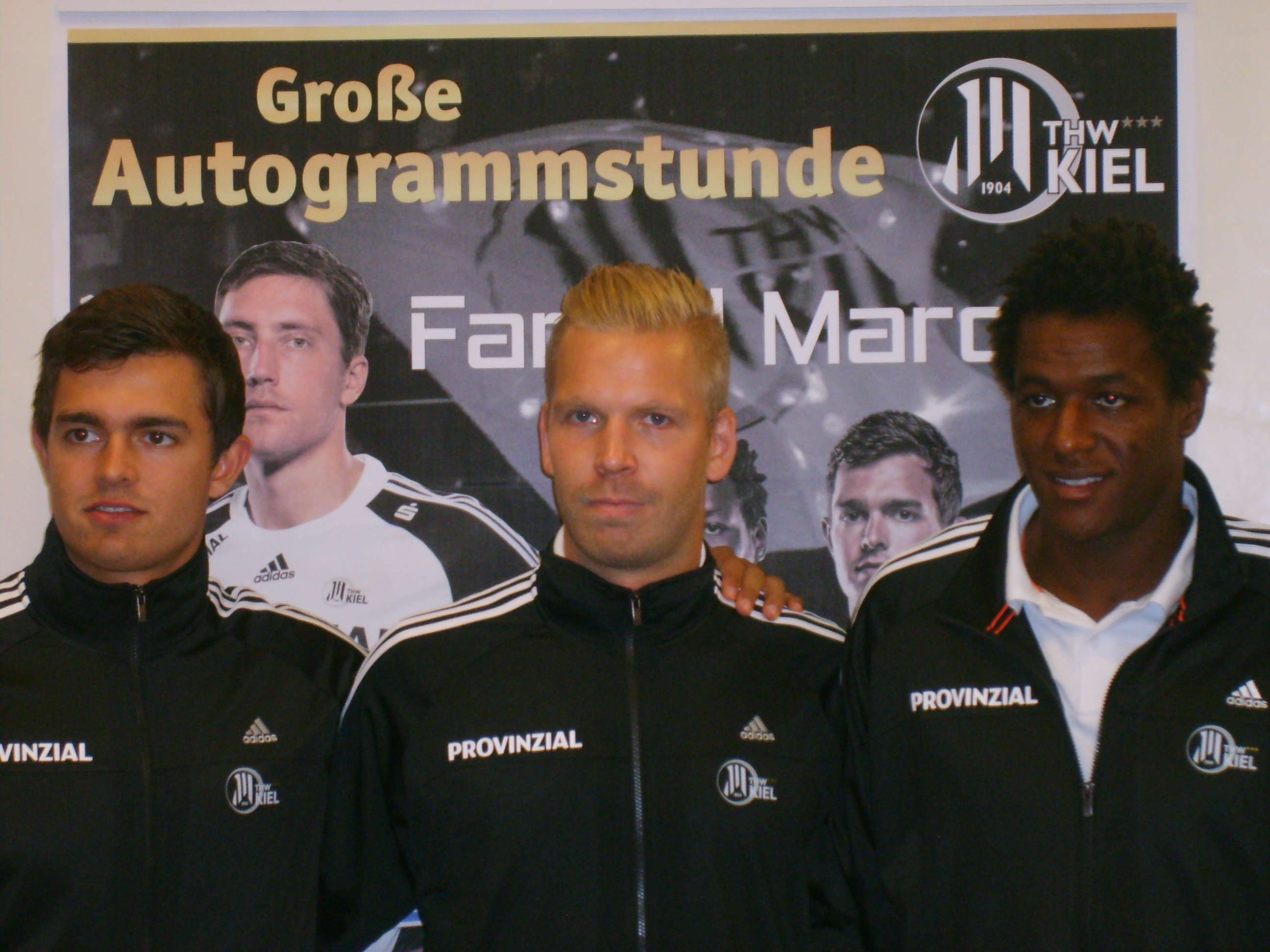 Rasmus Lauge (danish team handball player), Johan Sjöstrand (swedish team handball player) and Wael Jallouz (tunisian team handball player)